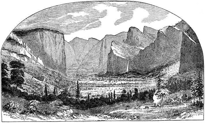 THE FIRST PICTURE OF YOSEMITE VALLEY Yosemite Valley Sketched by Thomas A. Ayres, June 27, 1855 His drawings are the first pictures ever made of Yosemite scenery